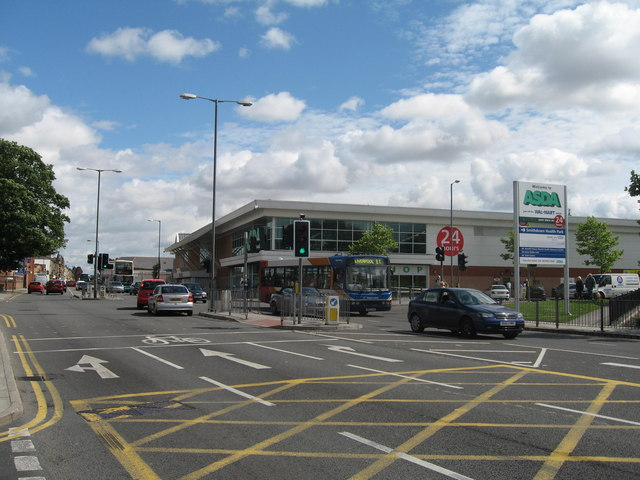 ASDA Smithdown Road The junction of Smithdown Road with Bagot Street and the new ASDA built on the site of Sefton General Hospital.